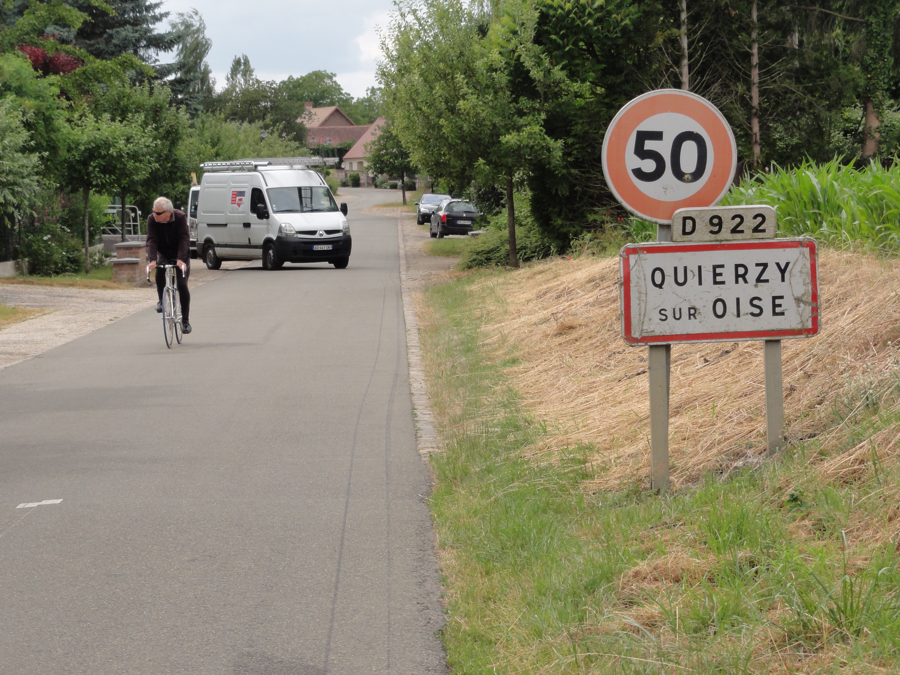 Quierzy (Aisne) city limit sign